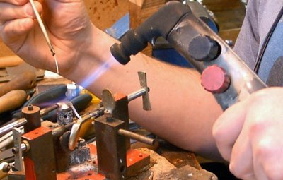 Oboe manufacture